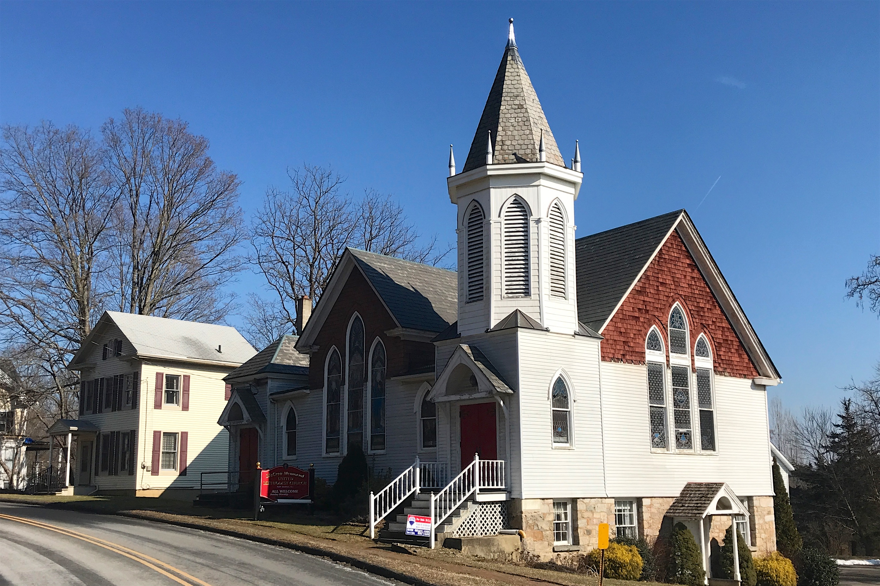 Historic McCrea Memorial Methodist Church in Port Murray, New Jersey. Contributing property #62 in the Port Murray Historic District. Contributing property #61 seen on the left.